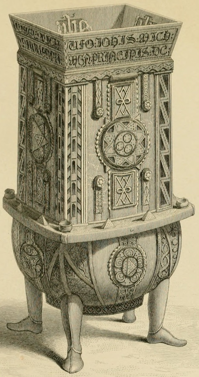 An engraving of the Dunvegan Cup. This image is a cropped scan from the book The Archaeology and Prehistoric Annals of Scotland. The engraving appears in plate vi, on page 652. The image is credited to D. Wilson. On page 670, in reference to this image, it states "The engraving on Plate VI. is from a private plate in the possession of C.K. Sharpe, Esq., executed from a drawing by Mrs. MacLeod".